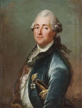 (Anckarström (1729-1777), not to be confused with his son with the same name. The son killed the king of Sweden, Gustav III.)